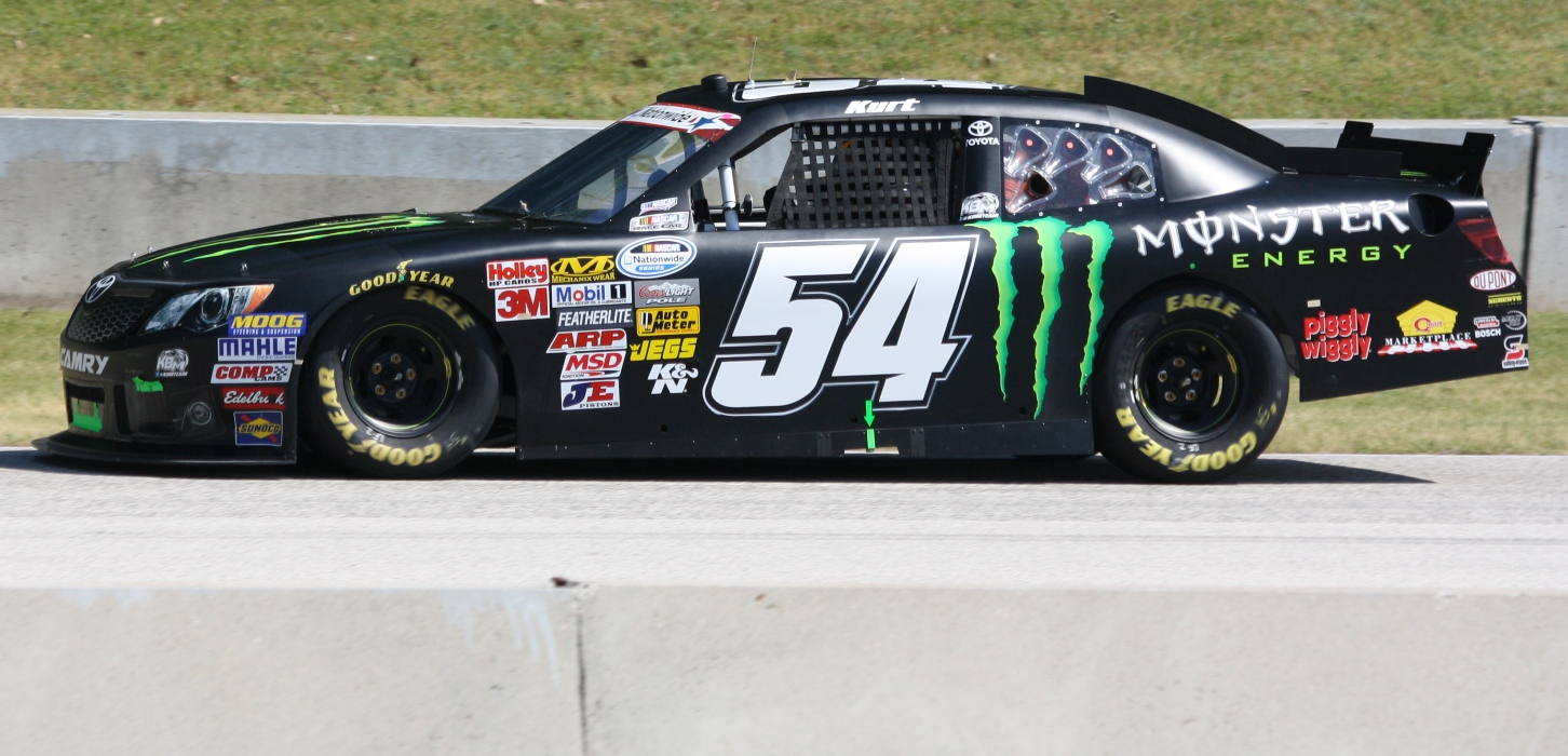 Kurt Busch NASCAR Nationwide Series car at Road America at the 2012 Sargento 200.